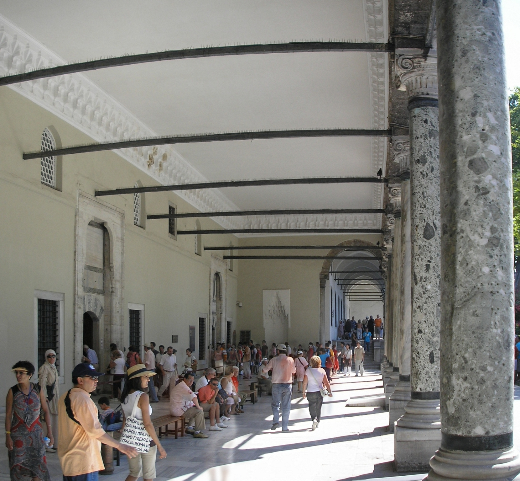 The Conqueror’s Pavilion, also called the Conqueror's Kiosk (Fatih Köşkü) and the arcade of the pavilion in front is one of the finest pavilions built under Sultan Mehmed the Conqueror and one of the oldest buildings inside the palace. It was built circa in 1460, when the palace was first constructed, and was also used to store works of art and treasure. Until today it houses the Imperial Treasury. This panoramic image was created with Autostitch. Stitched images may differ from reality.